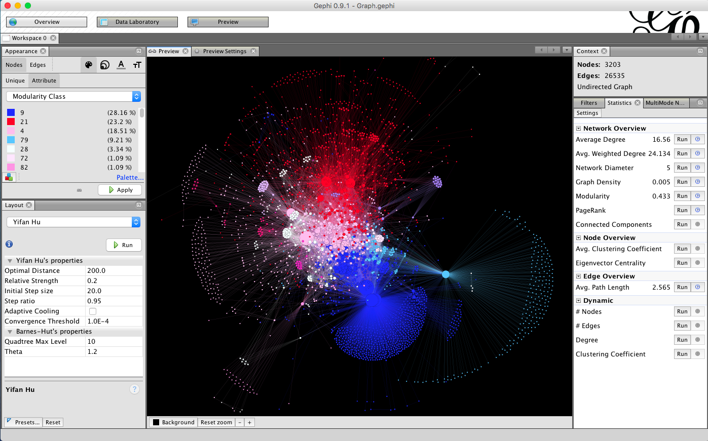 Screenshot of Gephi 0.9.1